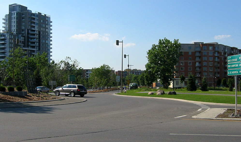 A strange suburban new town, platted in the 1960s (as Nun's Island, of course) along the lines of Columbia and other new towns but largely developed very recently, with the attendant glass balconies, etc. The original developer was Metropolitan Structures with Mies and Tigerman as consulting architects, no less -- the same team responsible for Illinois Center.